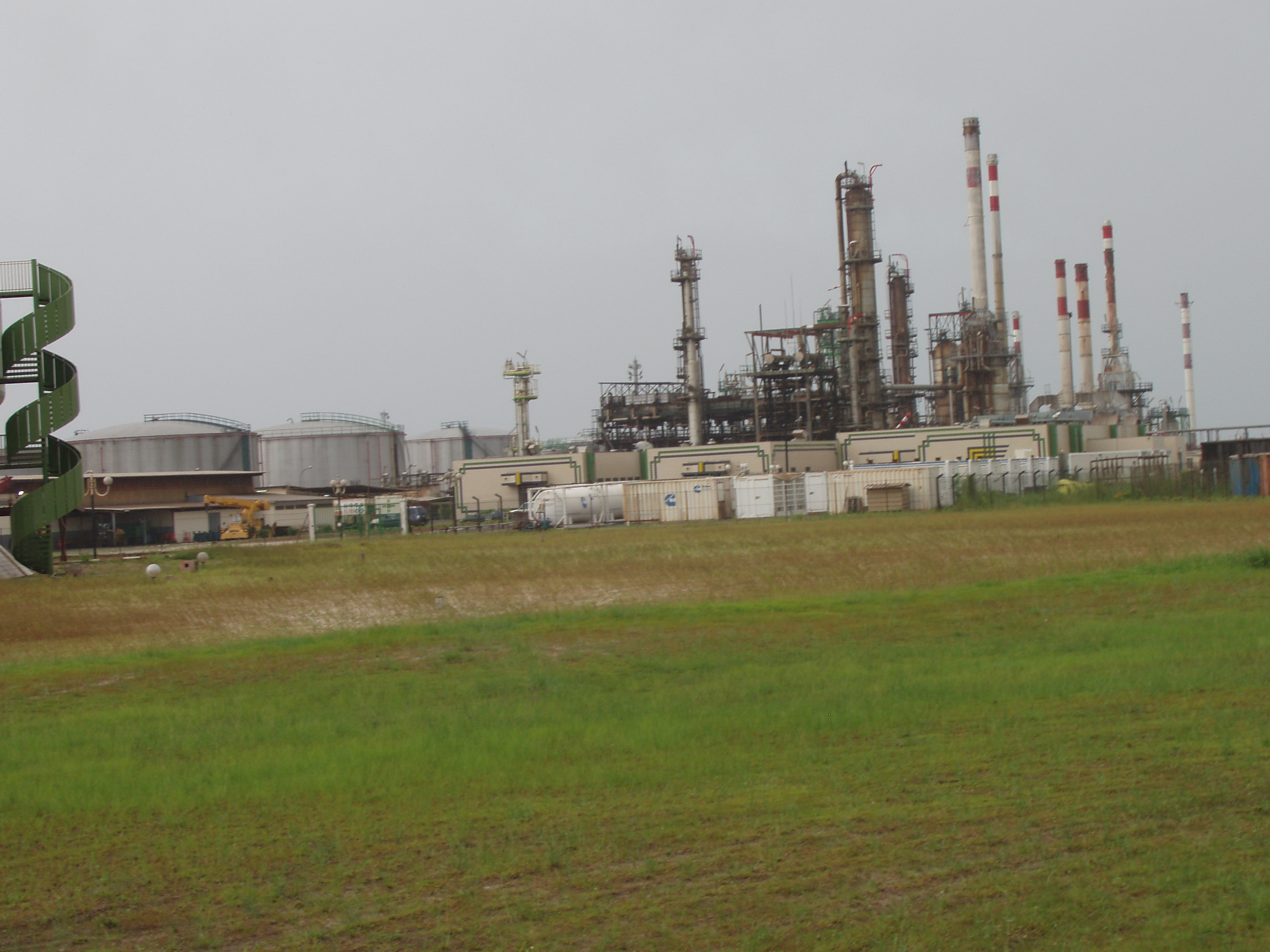 Plant SOGARA at Port-Gentil Gabon